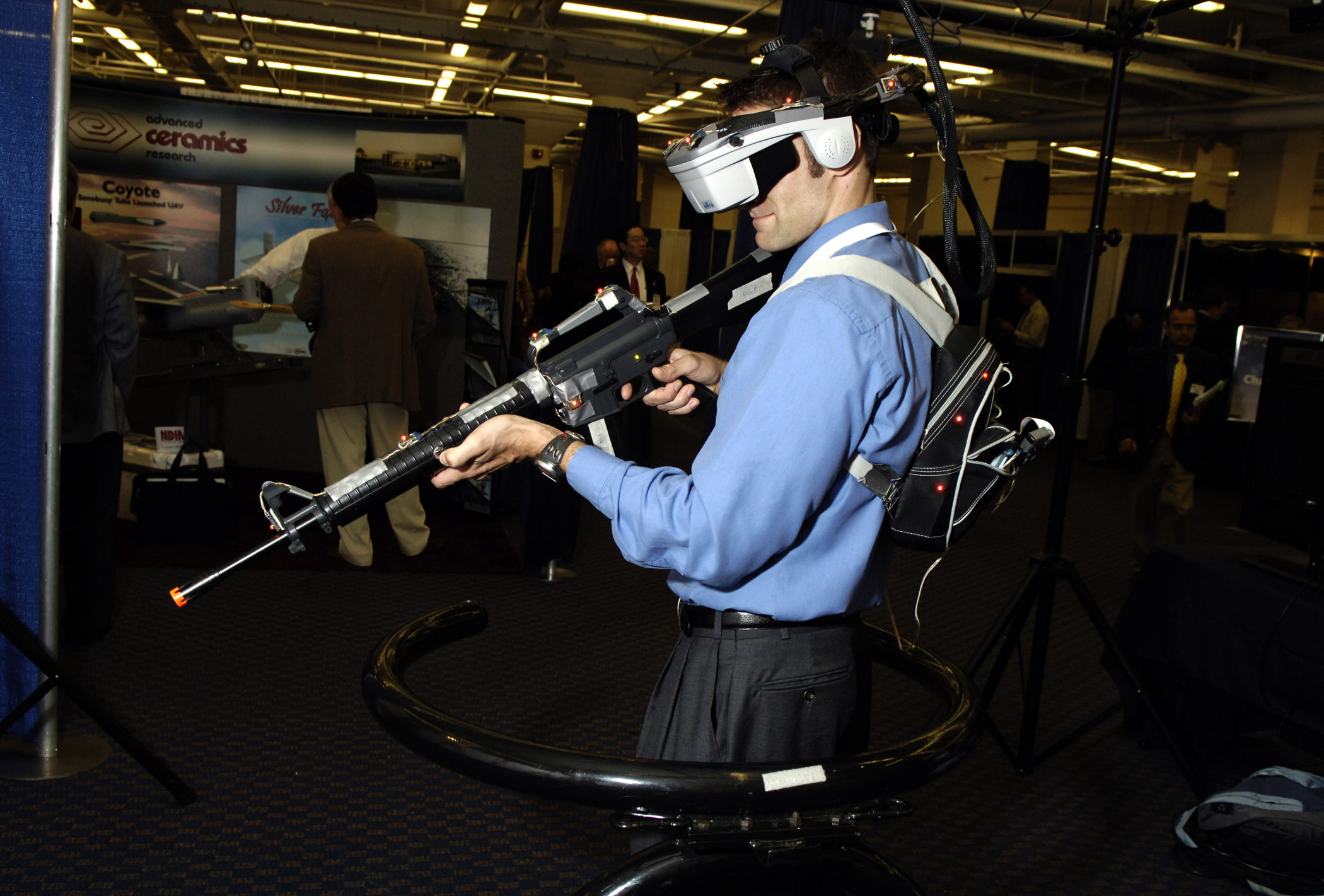 WASHINGTON. (Aug. 1, 2007) - Joe Coyne, engineer research psychologist, Naval Research Laboratory (NRL), demonstrates the Infantry Immersive Trainer (IIT), one of several Virtual Training Environment projects (VIRTE), during the 2007 Naval Science and Technology (S&T) Partnership Conference presented by the National Defense Industrial Association (NDIA) with technical assistance from the Office of Naval Research (ONR). VIRTE is an ONR program intended to research and develop a family of training simulators for the Navy and Marine Corps expeditionary warfare. U.S. Navy photo by Mr. John F. Williams (RELEASED)